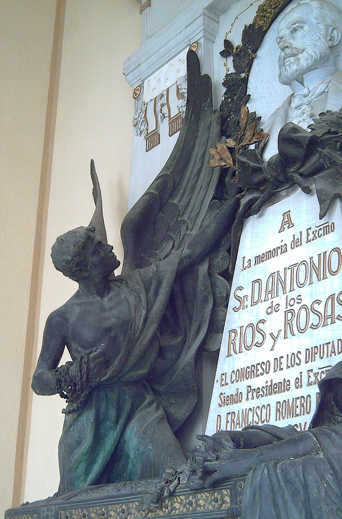 Partial view of the mausoleum of Antonio de los Ríos Rosas (1812–1873), made of white marble and bronze with damascening by Pere Estany in 1905. It is at the Pantheon of Illustrious Men in Madrid (Spain). The young winged genius offers a laurel branch to the Rios bust, encircled by a wreath, also of laurel.